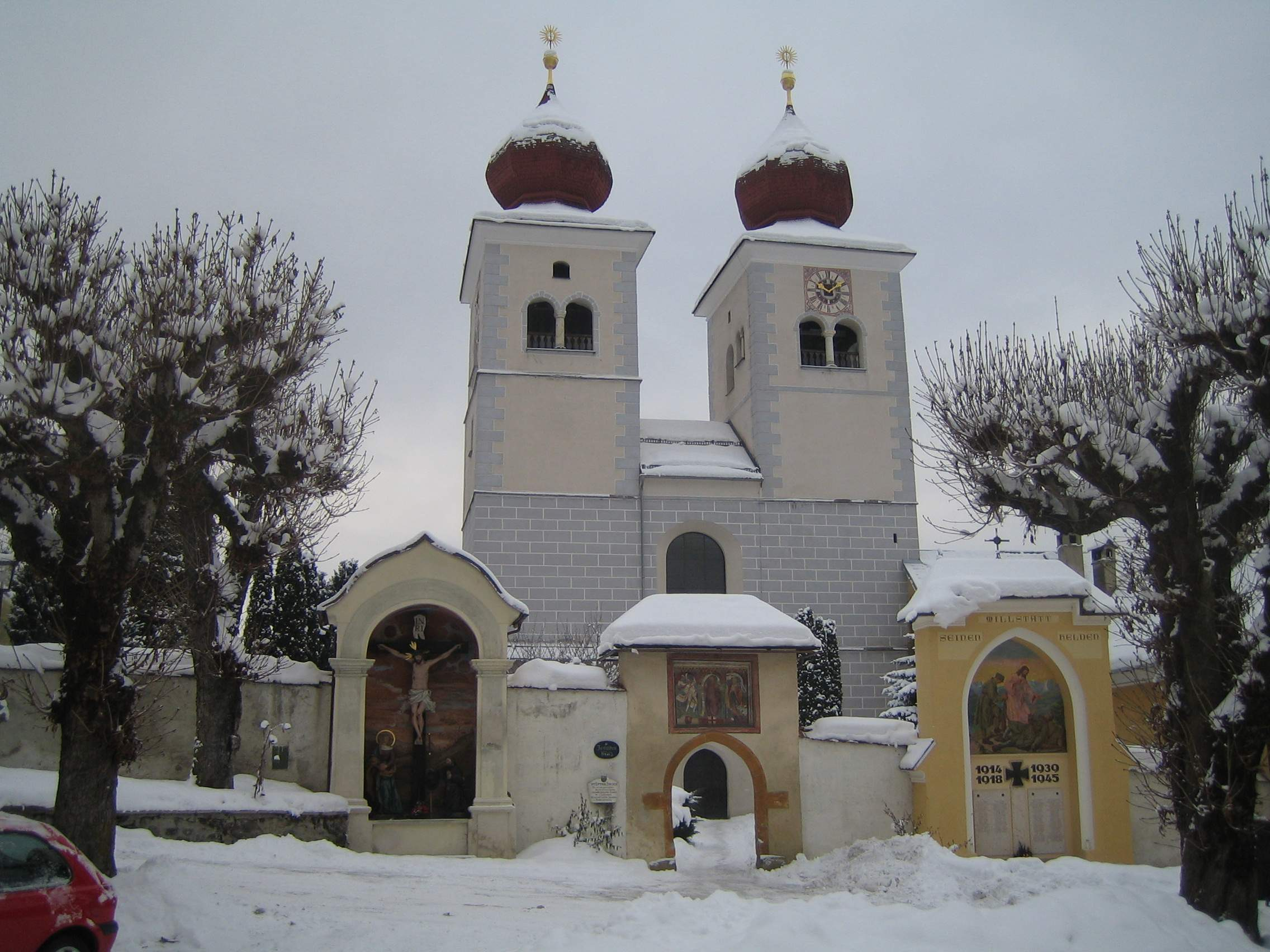 Stiftskirche in Stift Millstatt (Österreich) collegiate church in Millstatt (Austrian state of Carinthia)